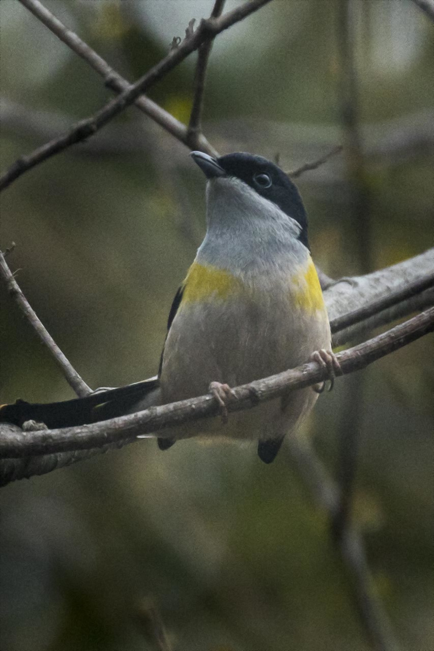 Black-headed Shrike-Babbler - Eaglenest - IndiaFJ0A1112